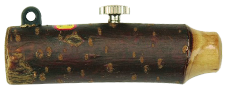 Roe deer call